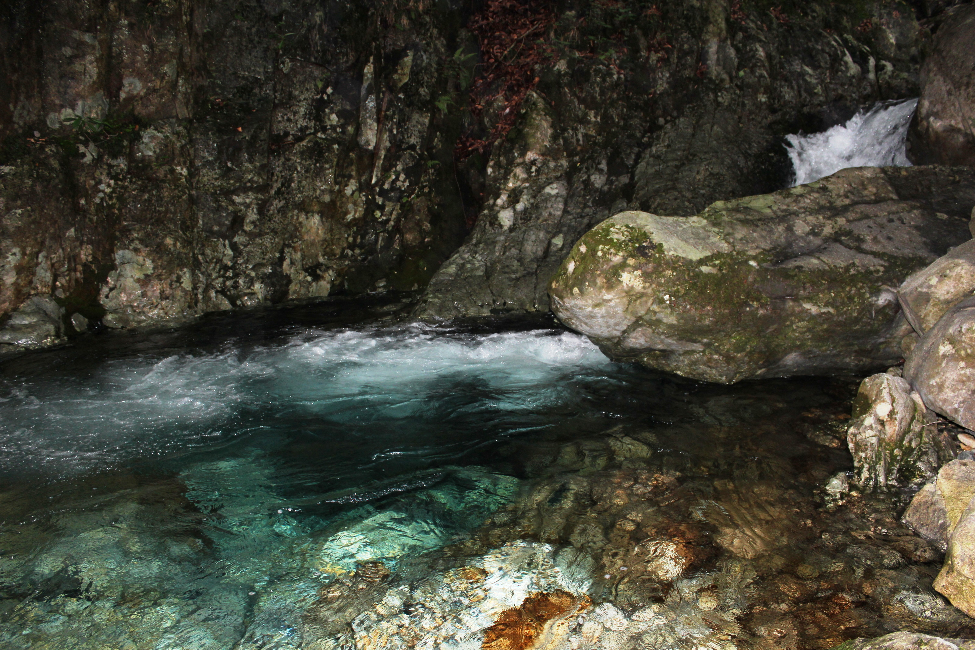 Hekisuiko in Ninotani of Otome Ravine(Otome-keikoku), in Kashimo, Nakatsugawa, Gifu prefecture, Japan.